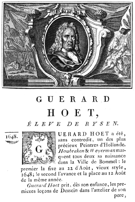 Book 3 of 4-volume painter biographies by Jean-Baptiste Descamps